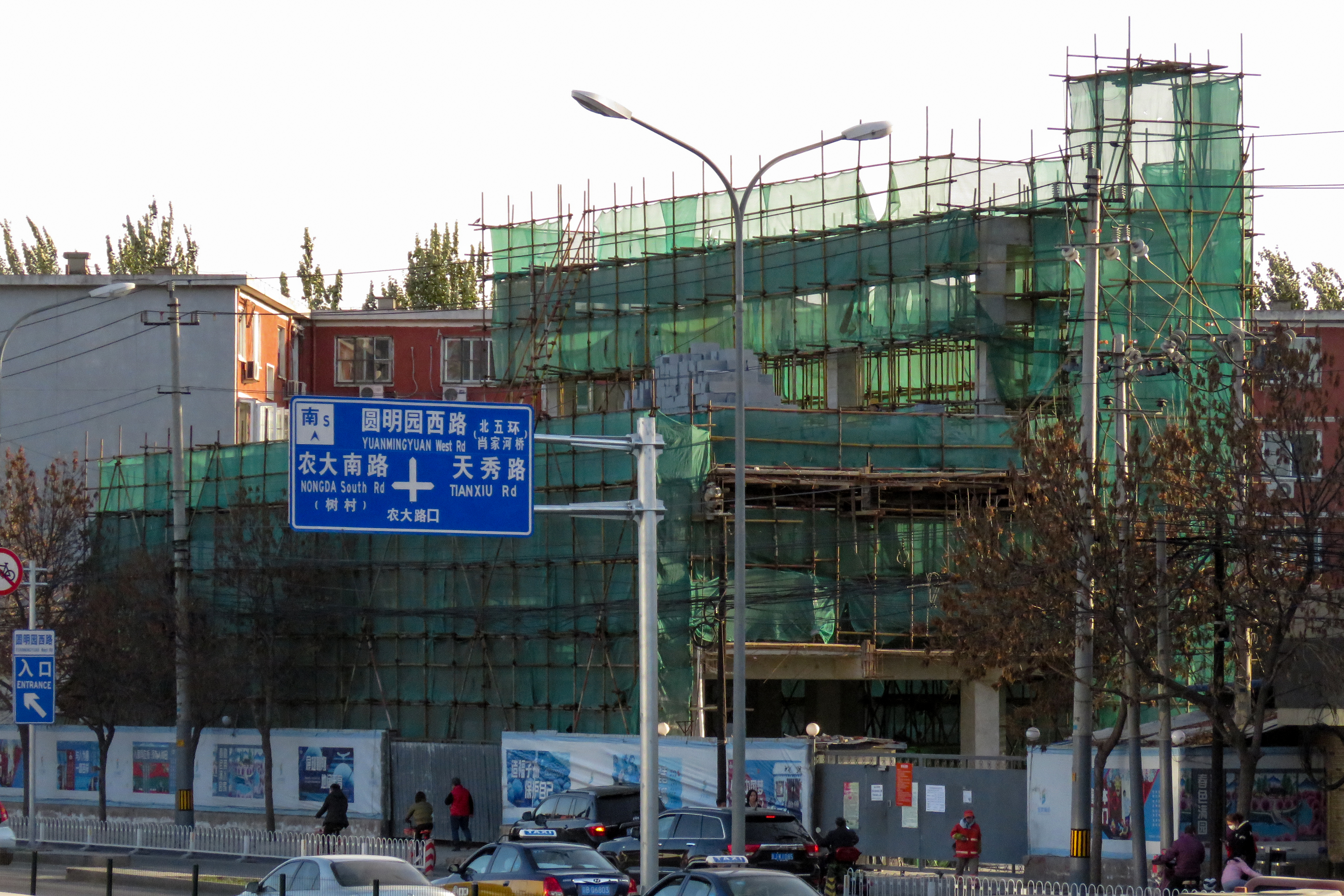 "Want to know why it has two floors or more? Ask the designer!"